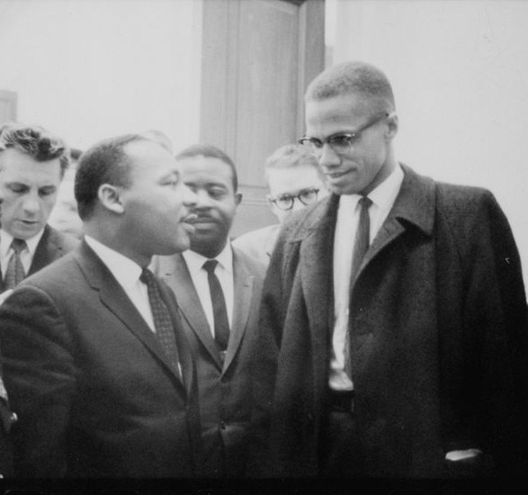 Martin Luther King, Jr. and Malcolm X meet before a press conference. Both men had come to hear the Senate debate on the Civil Rights Act of 1964. This was the only time the two men ever met; their meeting lasted only one minute.